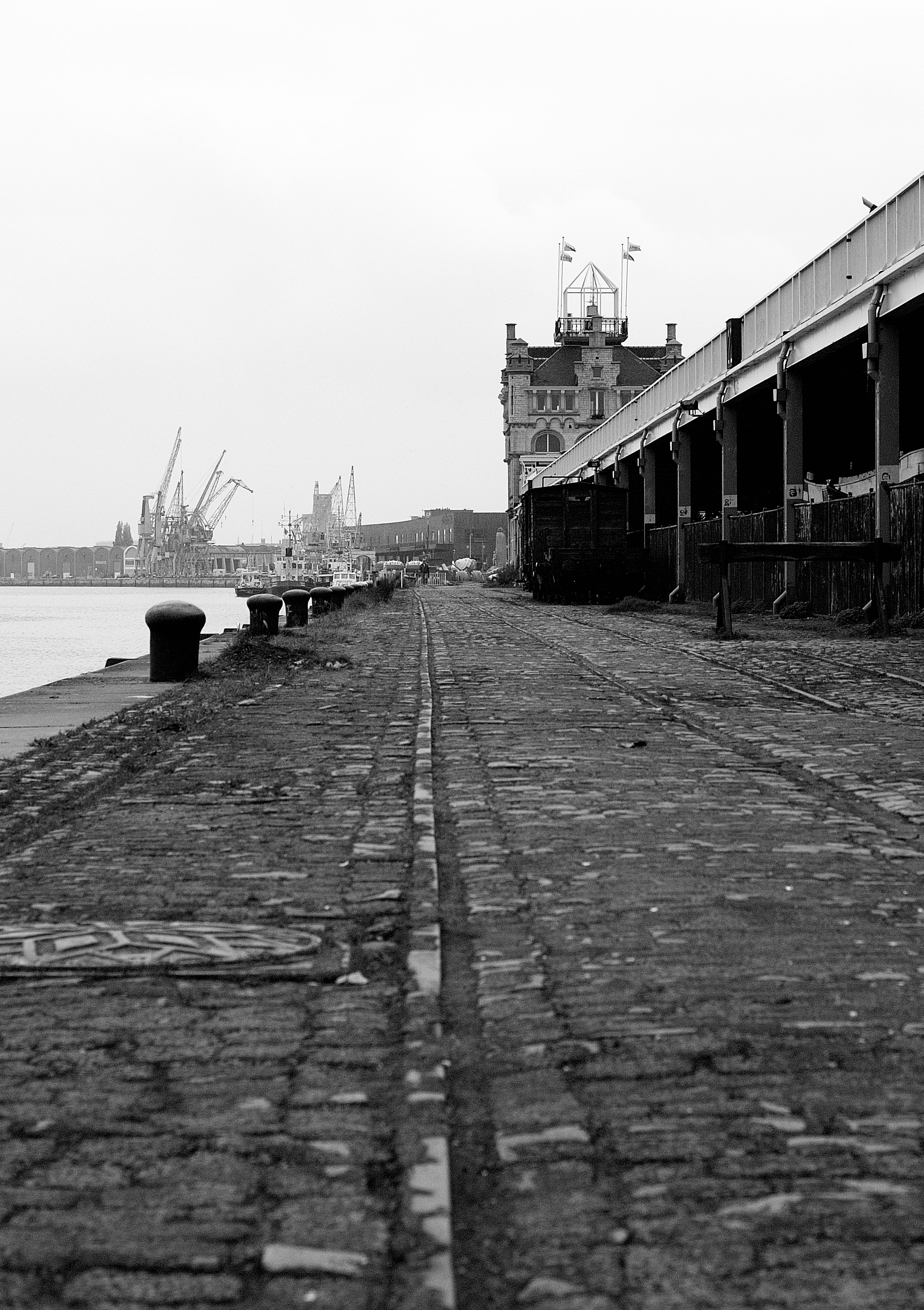 port of Antwerp Belgium.